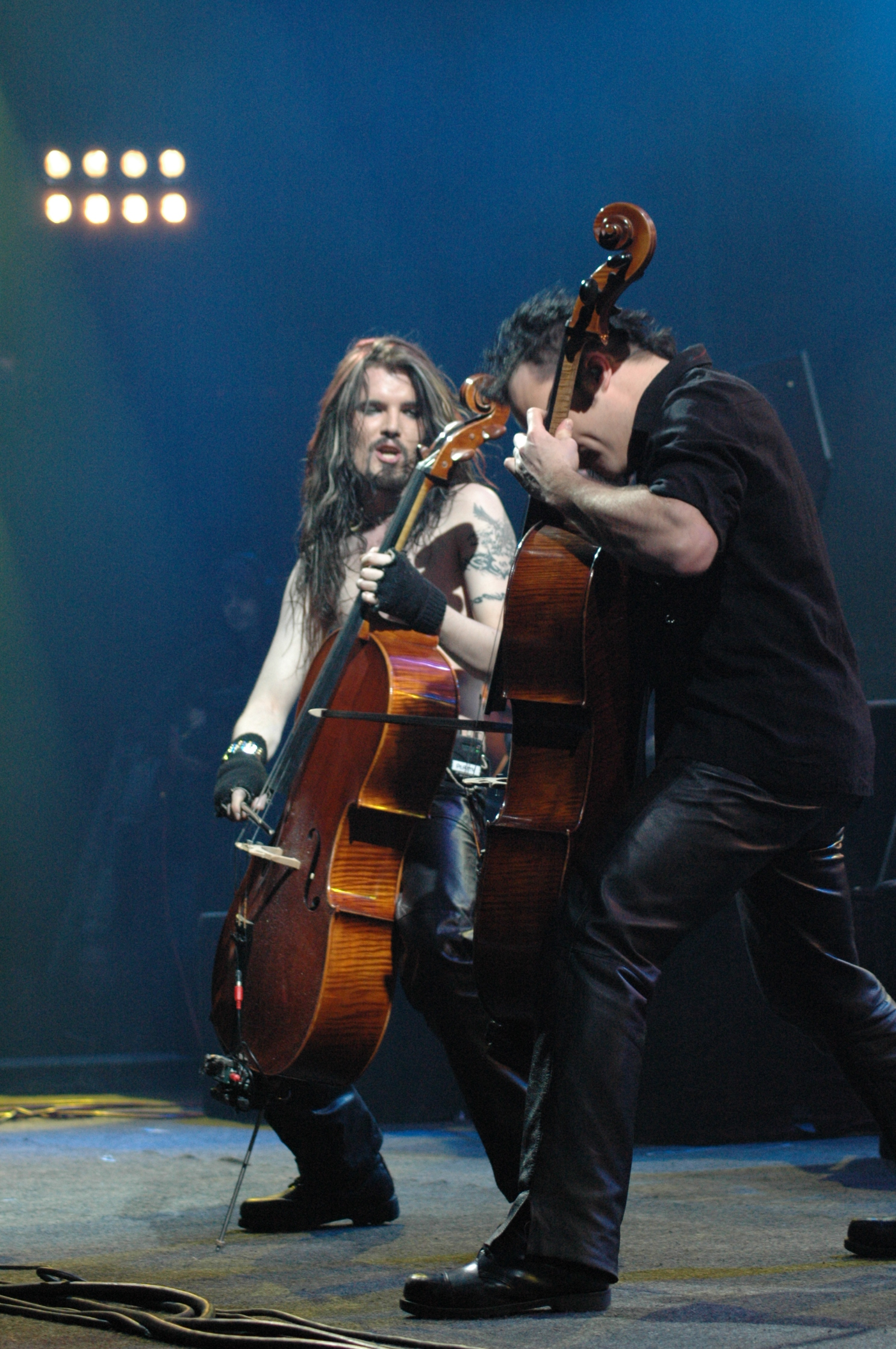 Apocalyptica band at Metalmania Festival 2005 in Poland - from left: Perttu Kivilaakso, Paavo Lötjönen